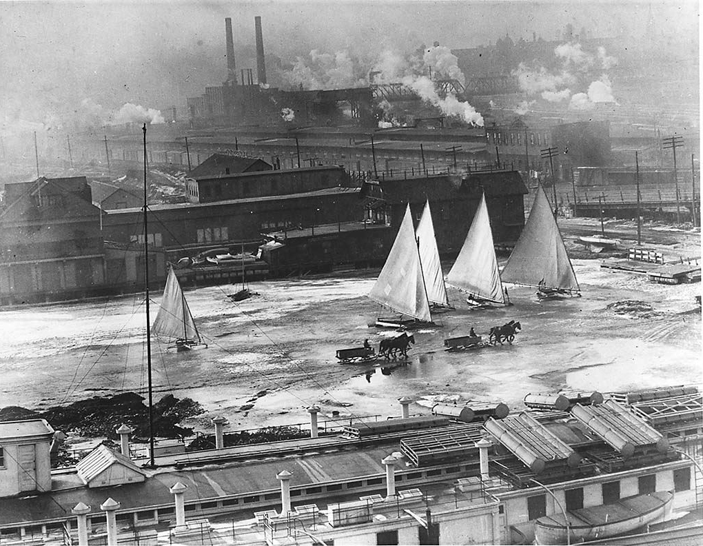 Toronto Bay at Cherry Street. (Toronto, Canada)